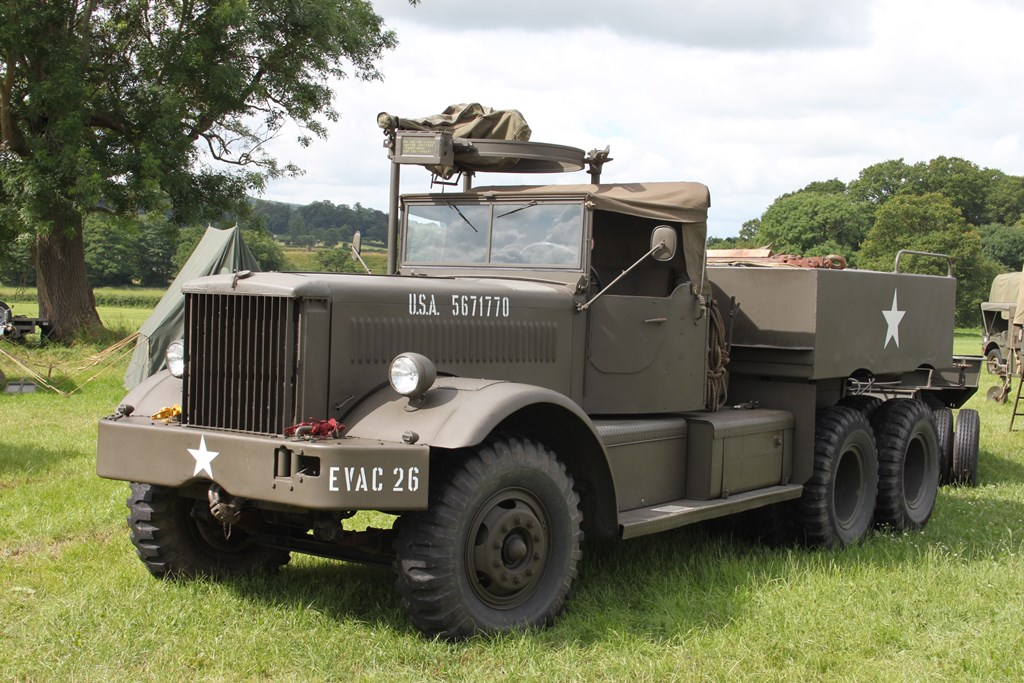 Diamond T 981 Ballast Tractor